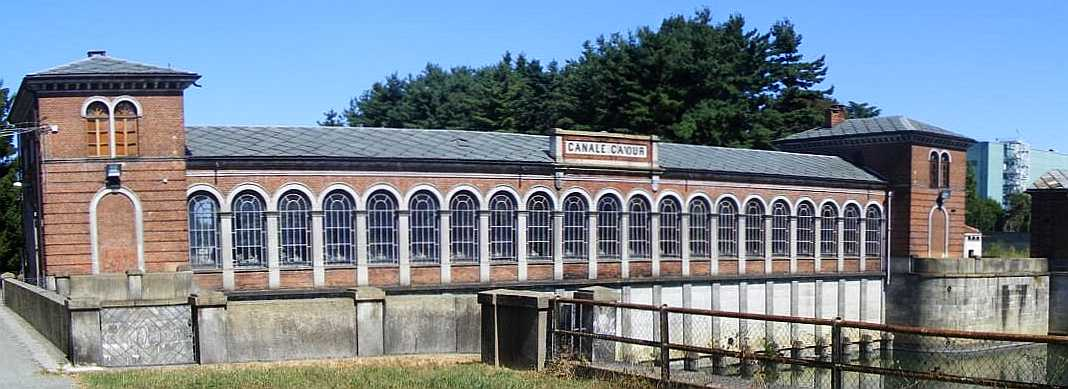 Cavour water channel: sluice gates in Chivasso (TO, Italy)